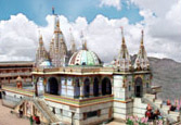 Image of the Swaminarayan temple in Junagadh